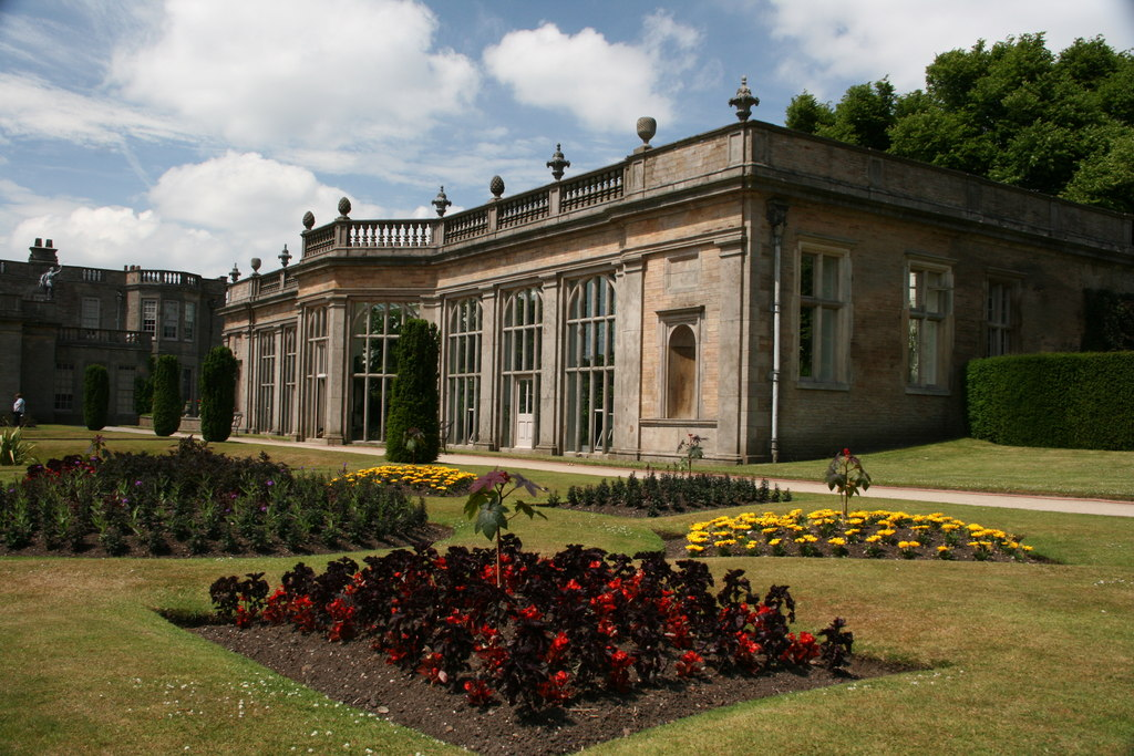 Photograph of the Orangery at Lyme Park, Cheshire